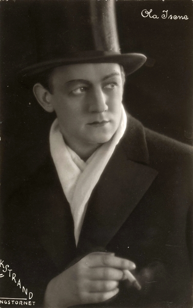 Depicted person: Ola Isene – Norwegian baritone opera singer and actor (1898–1973)